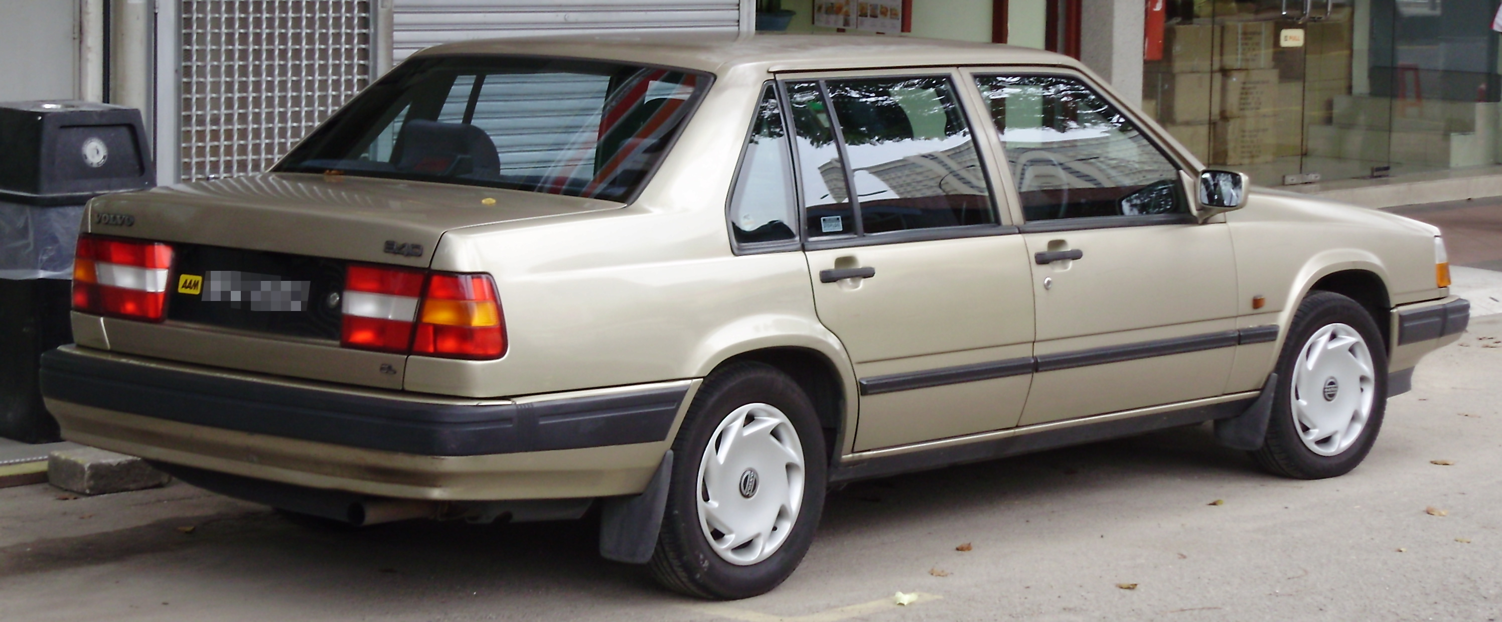 Rear quarter view of a Volvo 940 (GL) in Pudu, Kuala Lumpur, Malaysia.